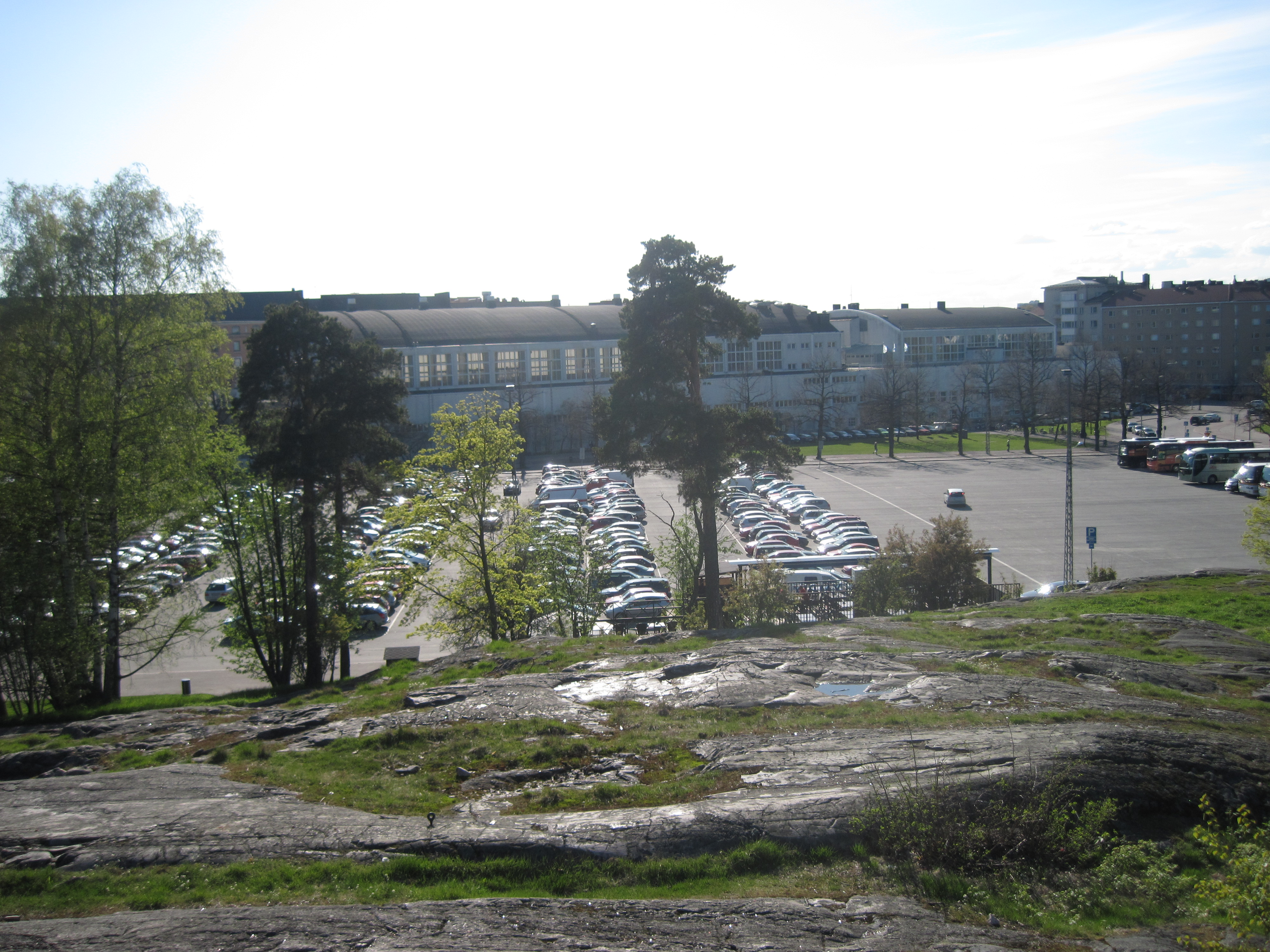 View from Mäntymäki, Helsinki, to West